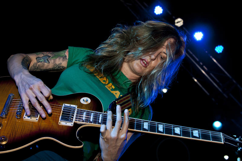 Laura Pleasants of Kylesa, 2012